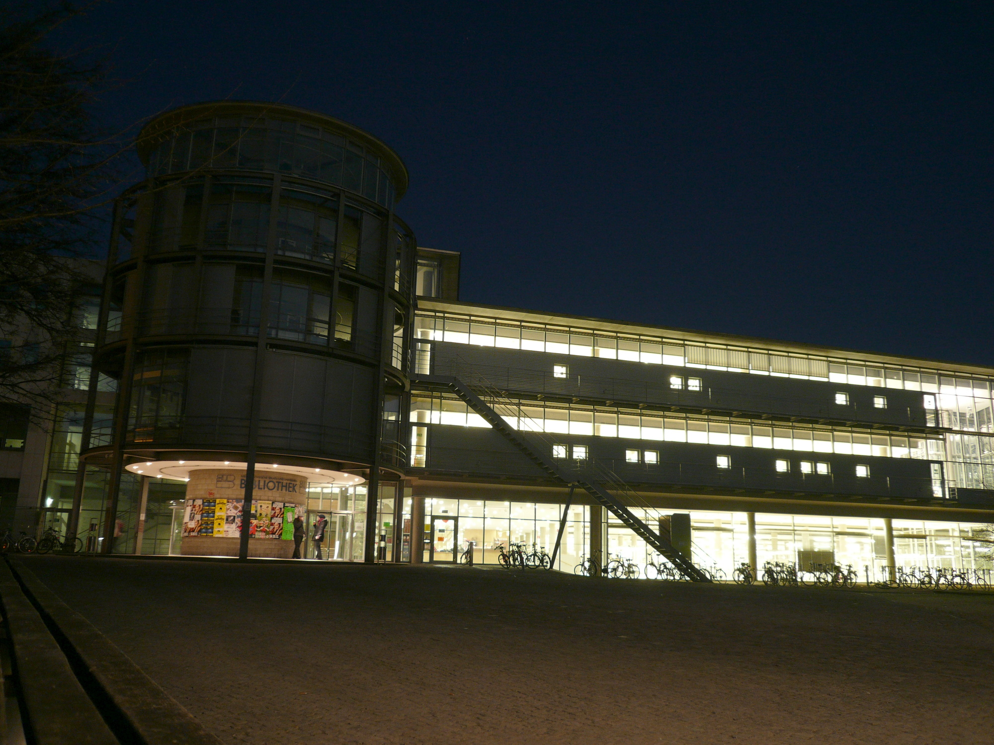 University library of Goettingen by night